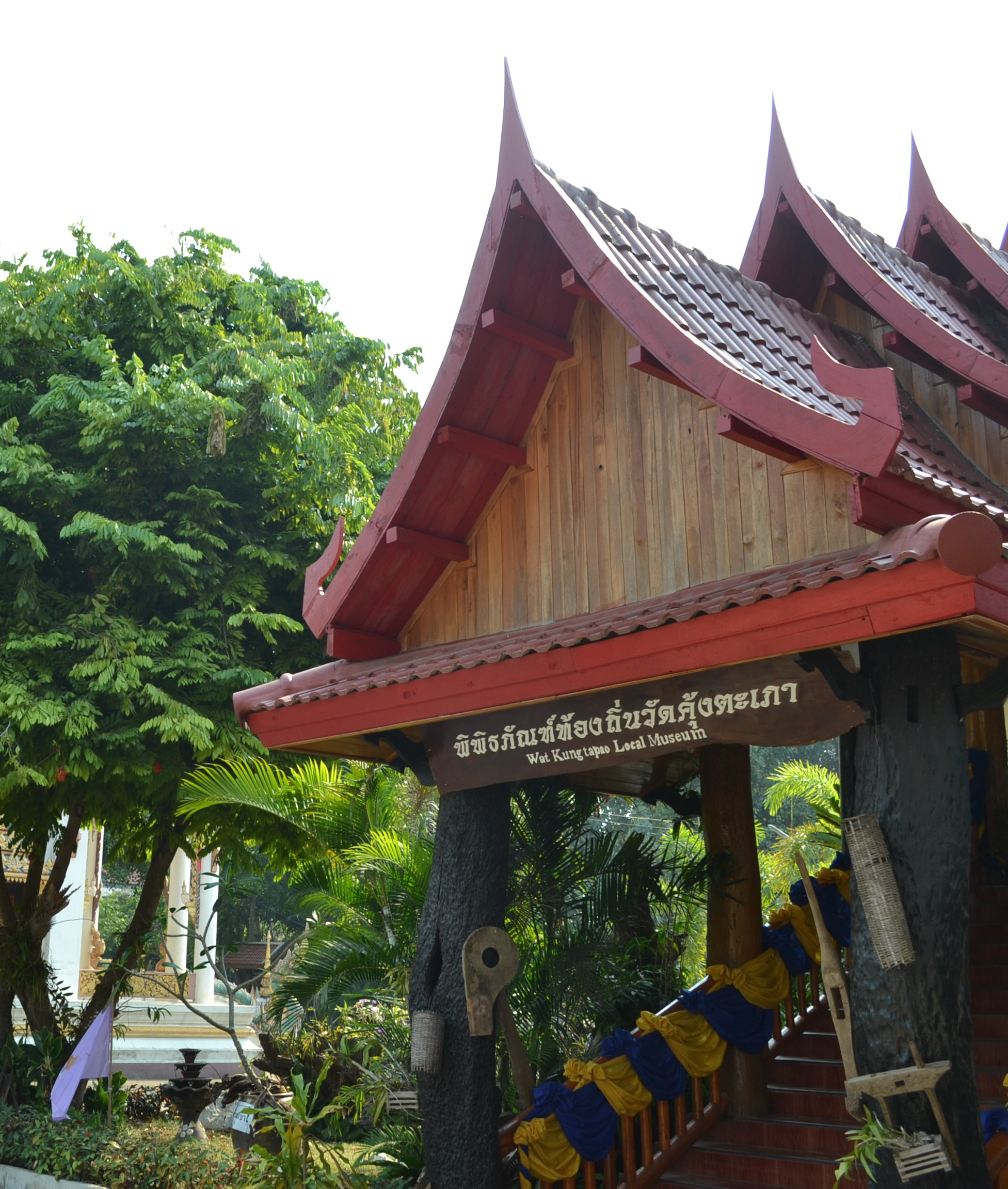 Wat Kungtapao Local Museum. at Wat Khung Taphao, Ban Khung Taphao, Khung Taphao subdistrict, Mueang Uttaradit, Uttaradit Province, Thailand.) on December 2, 2012.